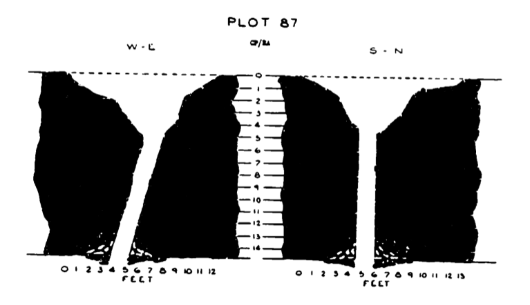 The impact crater in the roof of the Valentin submarine pens, produced by a British, World War 2, Disney rocket-bomb during post-war testing.